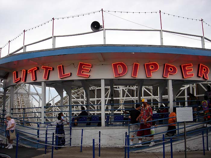 The loading area of a roller coaster called Little Dipper at the Kiddieland Amusement Park in Chicago, Illinois.